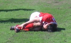 Vladimir Bystrov. 2006 Russian Premier League (FC Zenit St.Petersburg v.s. FC Spartak Moscow)